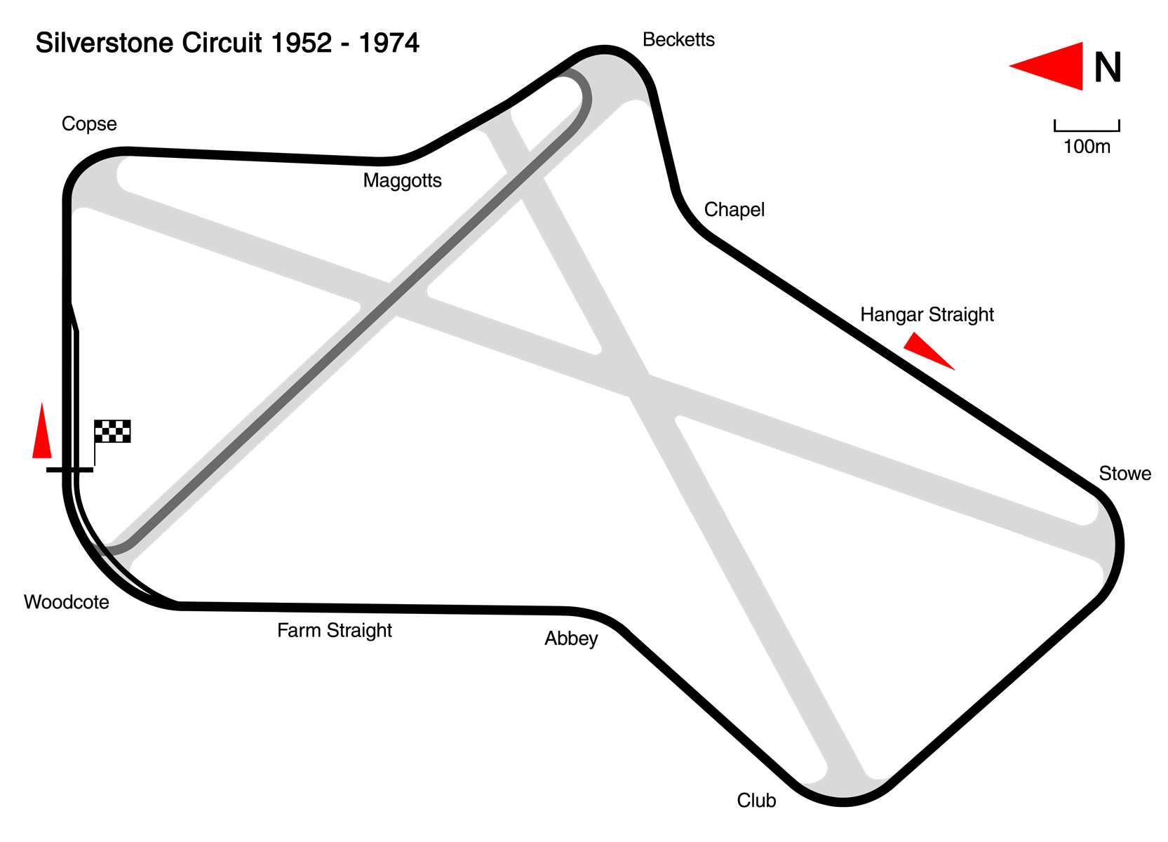 Track diagram of Silverstone Circuit in the UK in 1952 to 1974 configuration. Made to scale from aerial photographs.